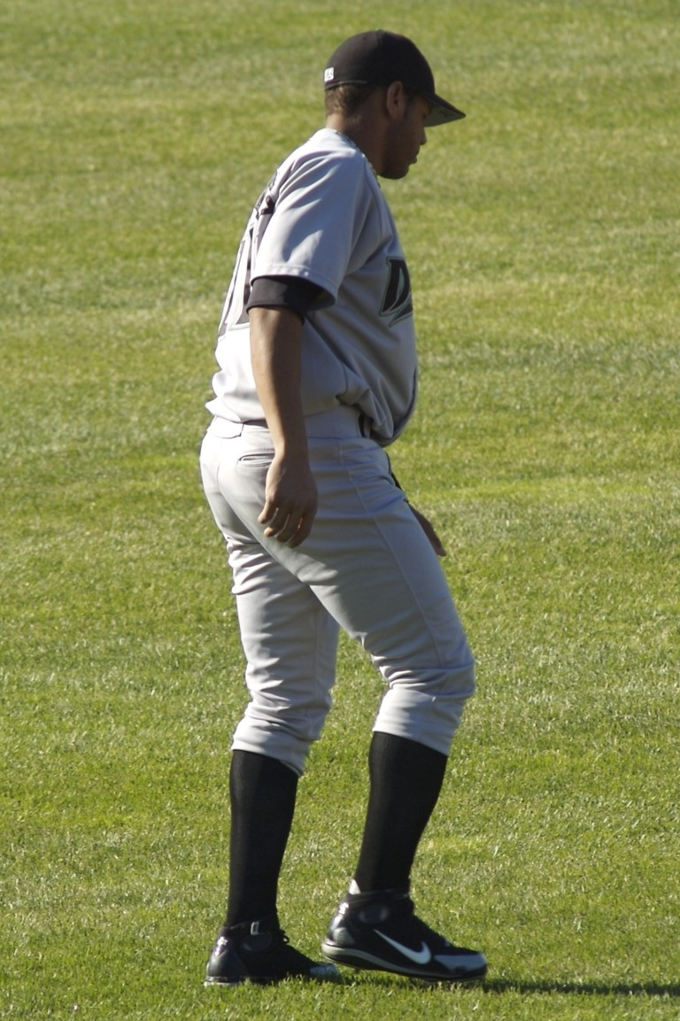 Alonzo Powell as hitting coach with the Dayton Dragons in 2006.